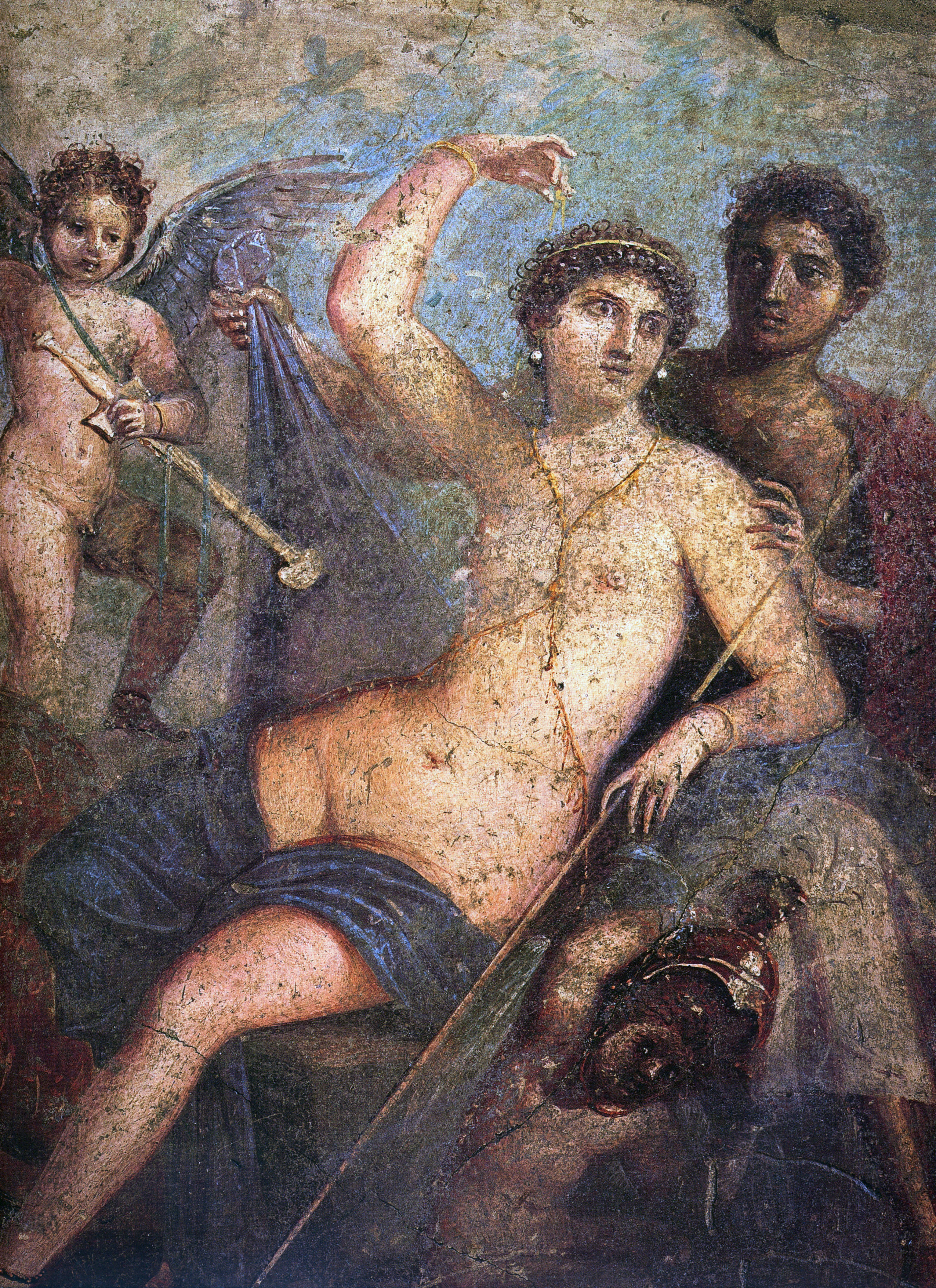 Roman fresco of Venus and Mars from the Casa di Marte e Venere (VII 9, 47) in Pompeii. Museo Archeologico Nazionale (Naples)